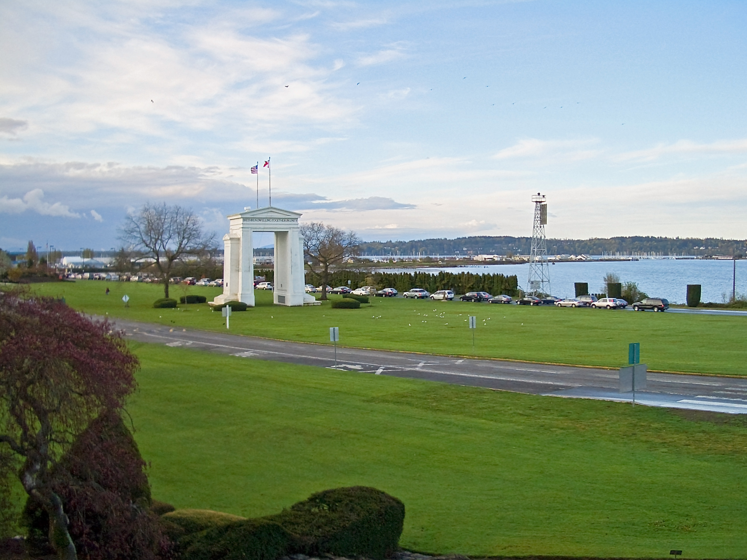 Peace Arch Park seen from the Canadian side, with Semiahmoo Bay in the background